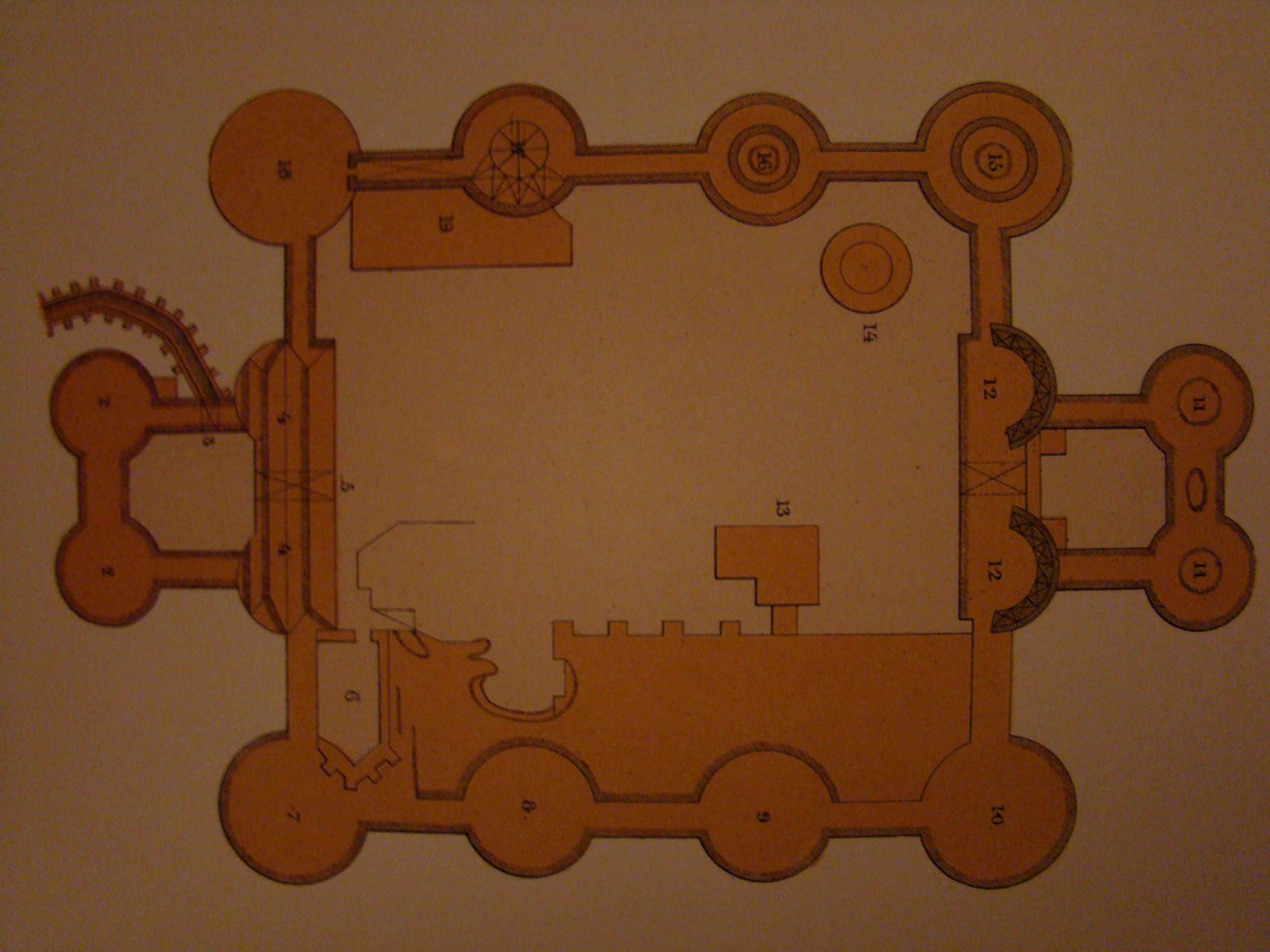 Castles of the Netherland, from the book "Merkwaardige kasteelen in Nederland" by Van Lennep and Hofdijk, 2nd release 1884.